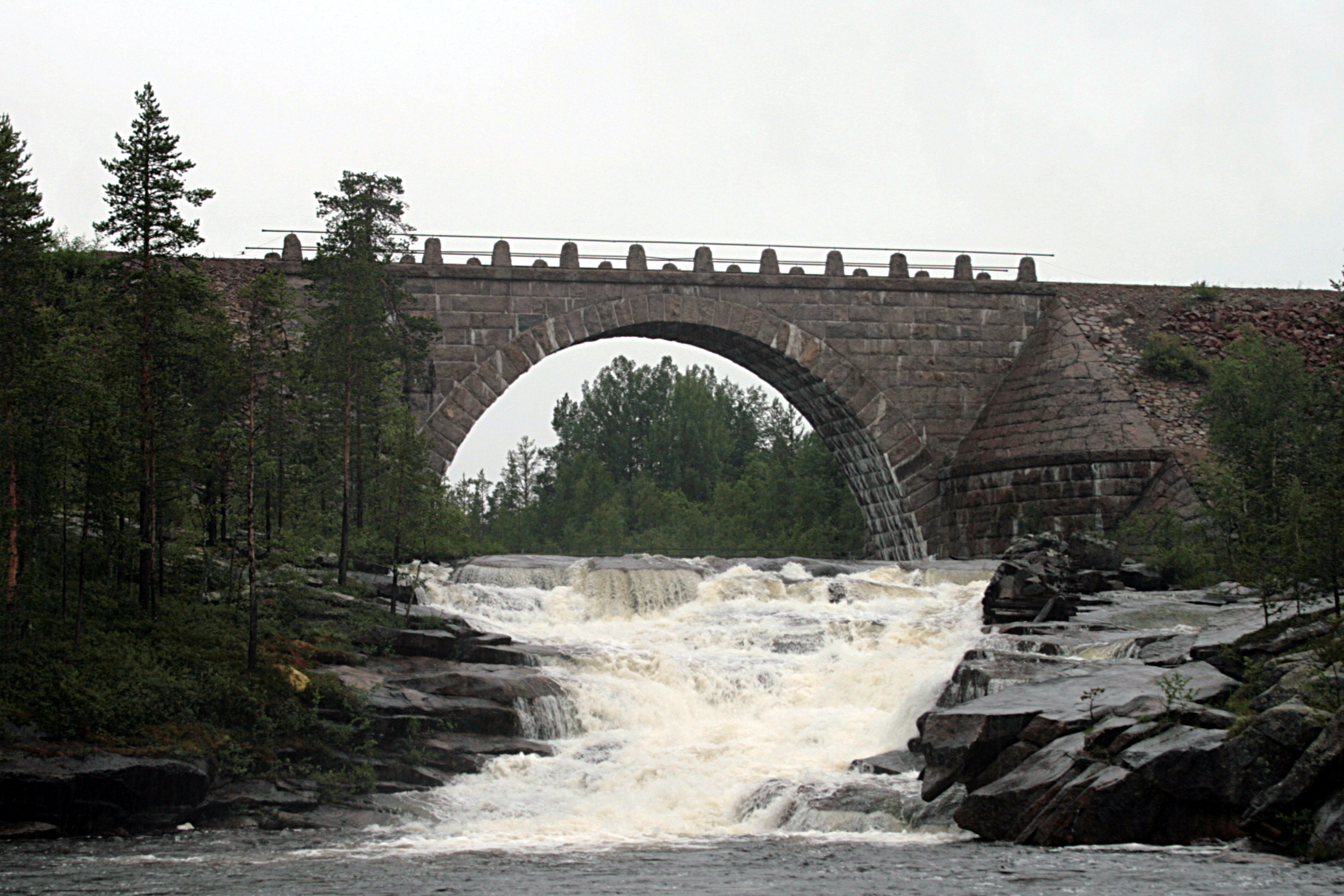 Stone arch bridge for Inlandsbanan over Pakkojåkkå in Northern Sweden.